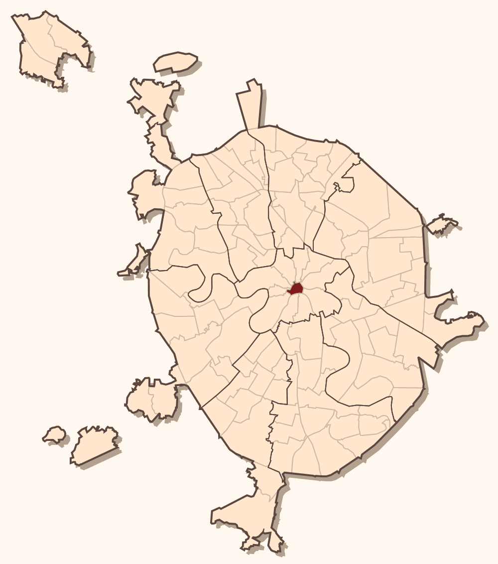 Moscow districts map